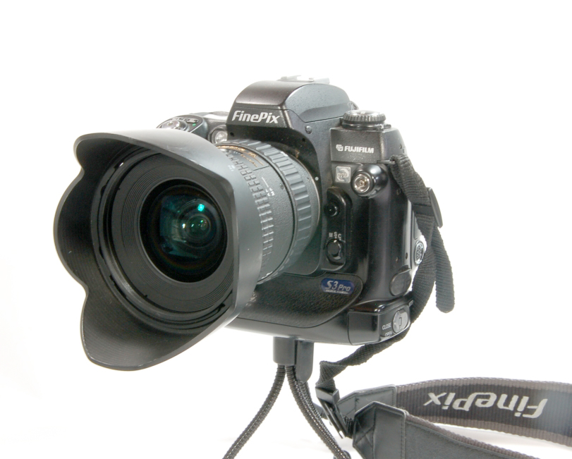 mix